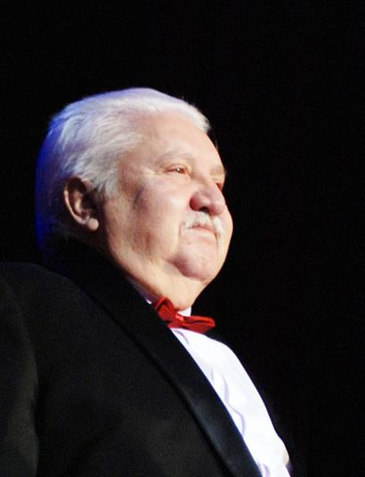 Marián Labuda at the 2011 Bratislavský bál.